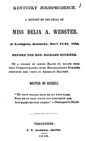 Delia Ann Webster (1845). A History of the Trial of Miss Delia A. Webster: At Lexington, Kentucky, Dec'r 17-21, 1844 Before the Hon. Richard Buckner on a Charge of Aiding Slaves to Escape from that Commonwealth - with Miscellaneous Remarks Including Her Views on American Slavery.